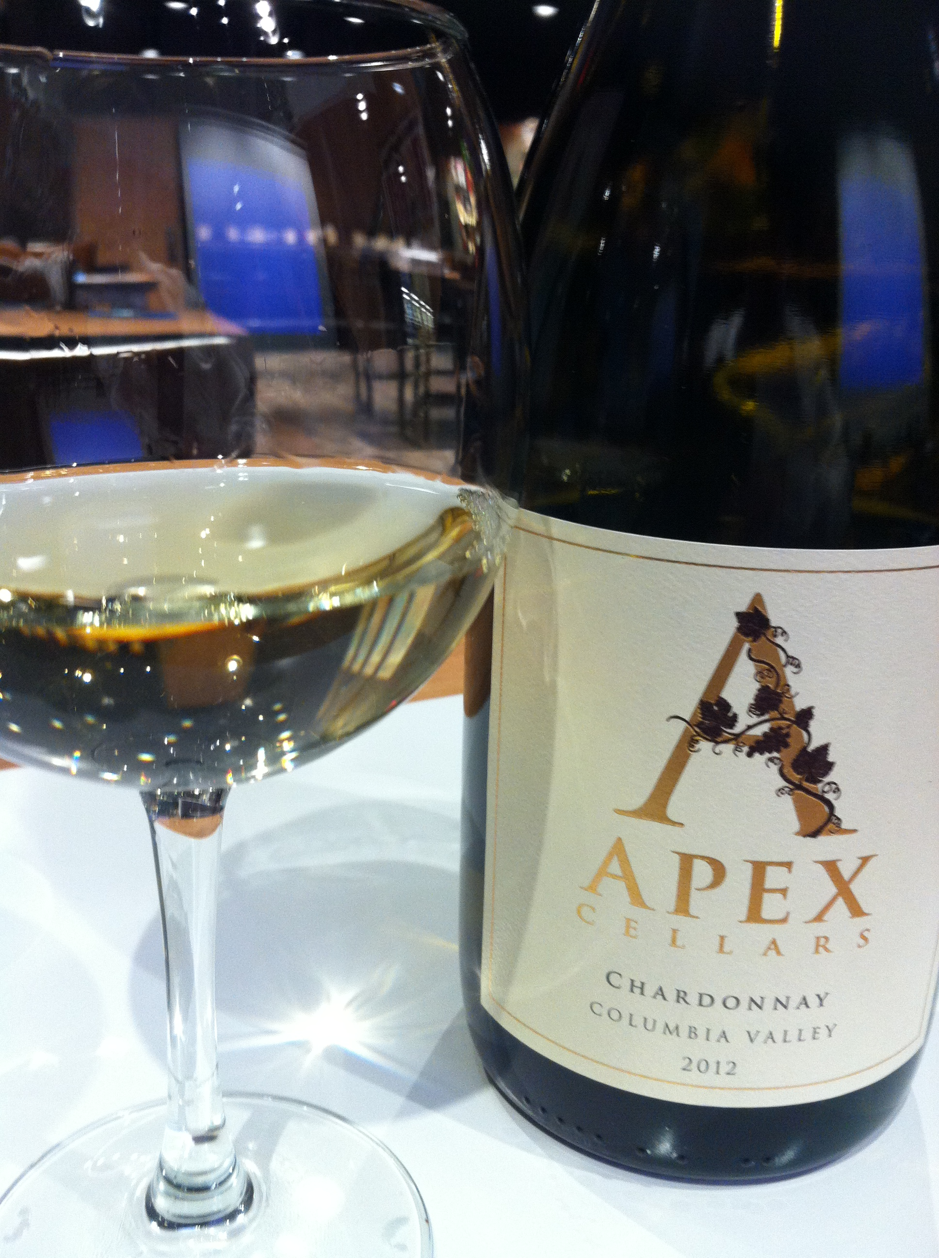 Chardonnay from the Washington wine region of the Columbia Valley